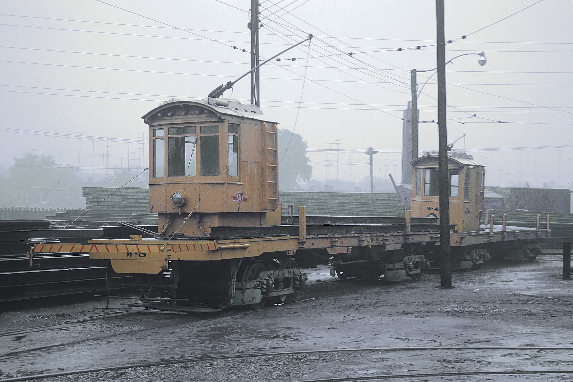 A Roger Puta photogaph